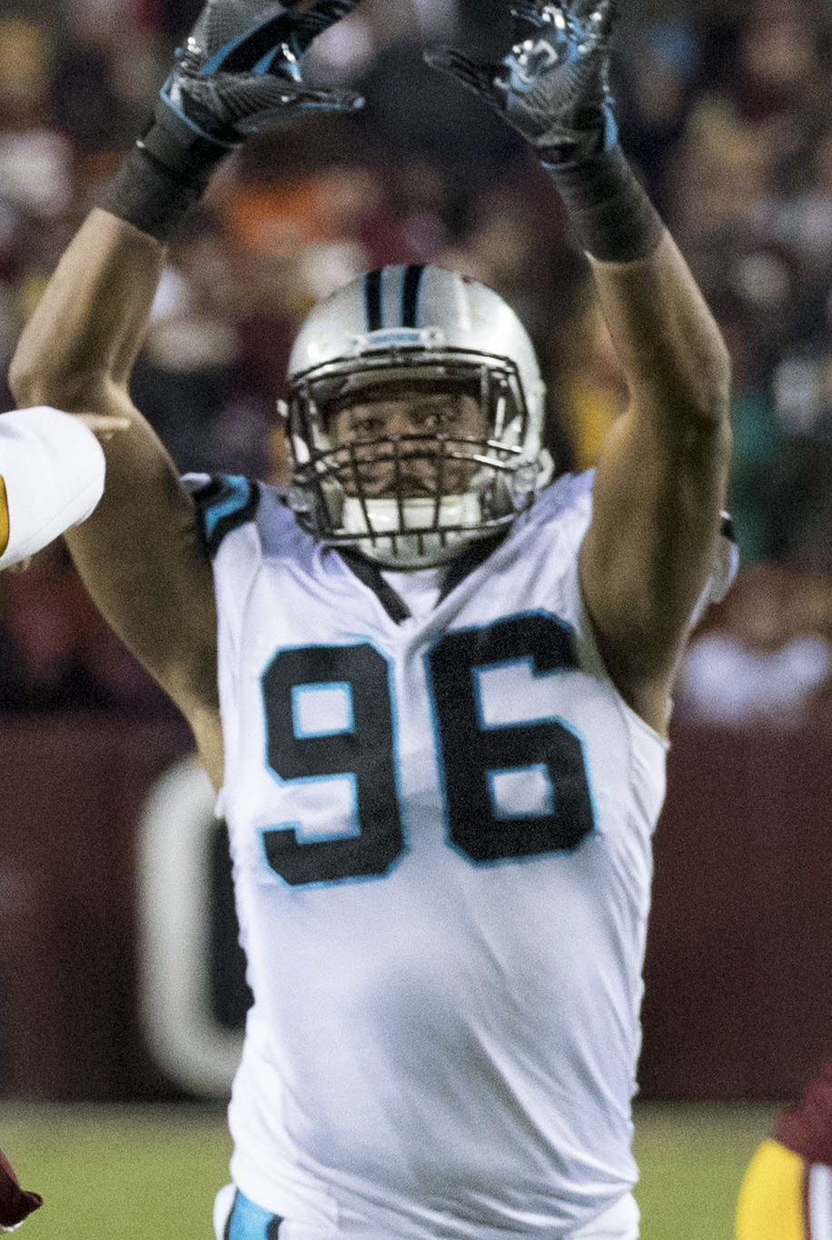 Panthers at Redskins 12/19/16